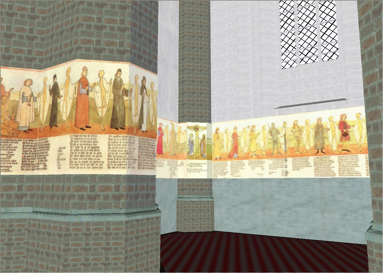 Marienkirche (Berlin) - 3D reconstruction, which were created under the advise of Prof. Dr. Badstübner Author: Martin Klitscher